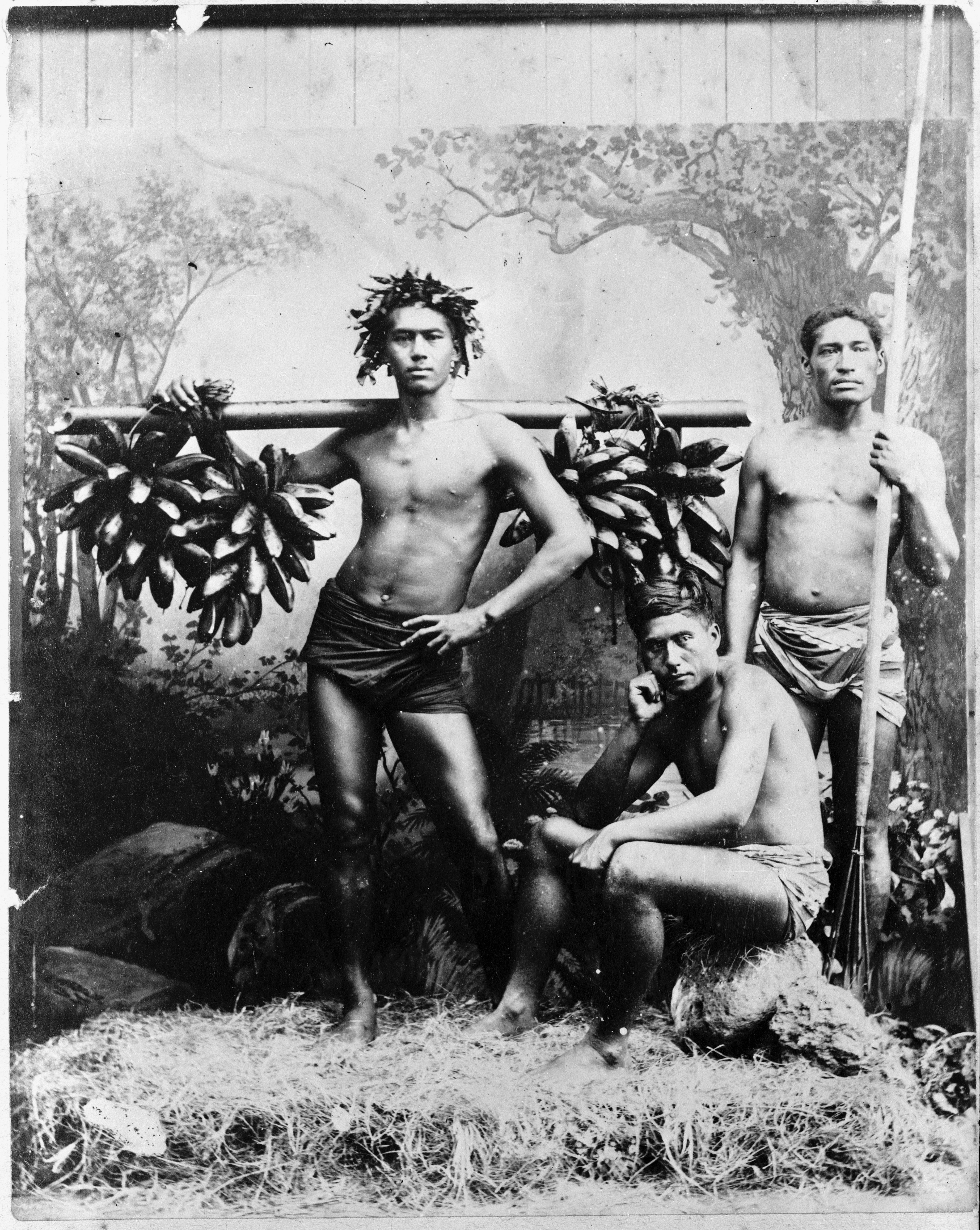 Gatherers of fei (wild bananas), Tahiti, 1887. Photographer unidentified. Reference Number: 1/2-002463-F.